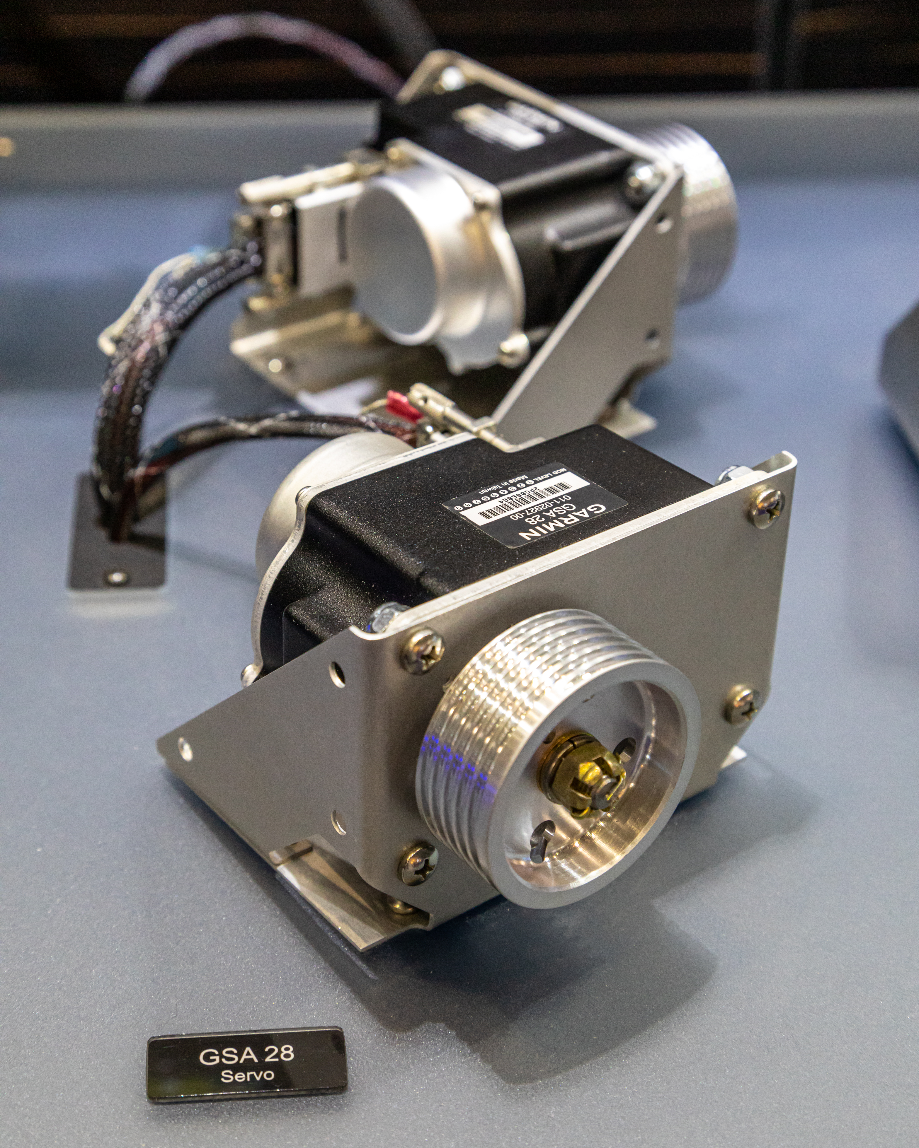 Garmin servomotor for autopilot applications at EBACE 2019, Palexpo, Switzerland